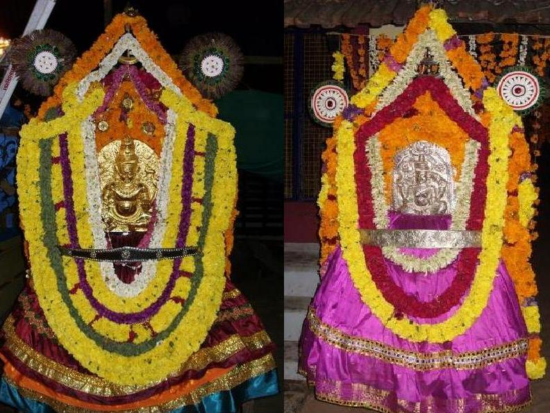 Nalpathenneeswaram thidambu Sivan and parvathi